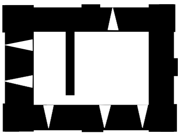 Plan of Bowes Keep